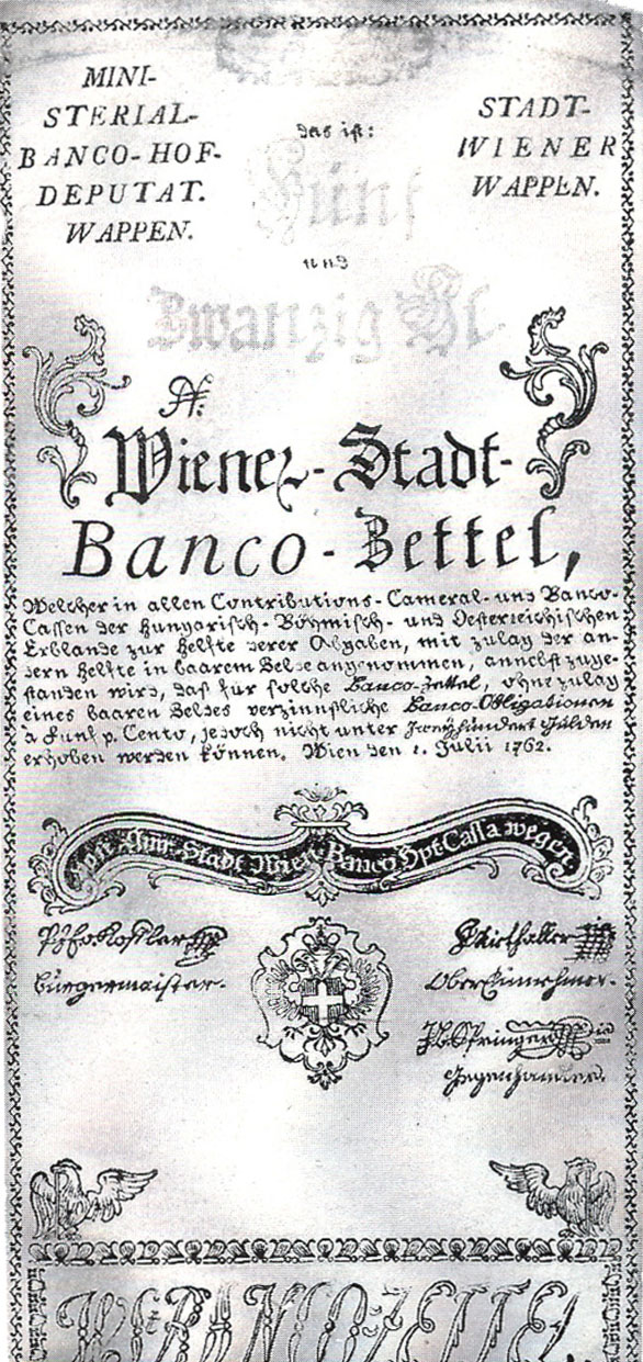 A "Bancozettel" from 1762, the first paper money issued in Austria.